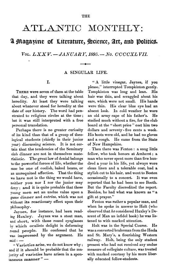 The first chapter of A Singular Life, a serialized novel by American writer Elizabeth Stuart Phelps Ward (1844-1911). From The Atlantic Monthly, Vol. LXXVI, No. CCCCXLVII (January 1895): p. 1.